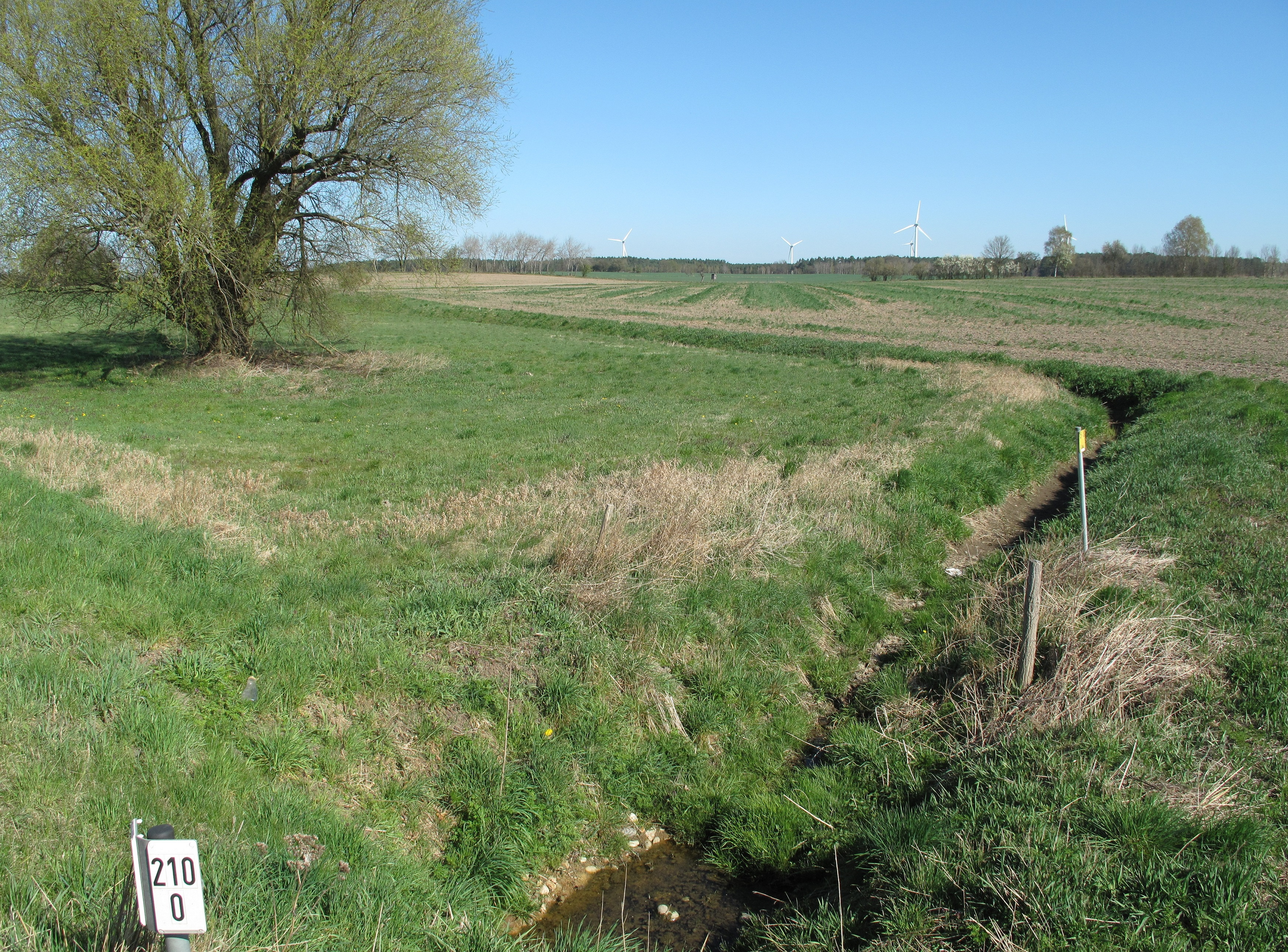 Cultural landscape and Schwenowseegraben (stream) in Behrensdorf. Behrensdorf is a part of the municipality Rietz-Neuendorf in the District Oder-Spree, Brandenburg, Germany.